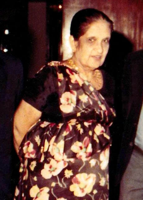 Photograph of late Sri Lankan Politician (Prime Minister of Ceylon and Sri Lanka) and the Modern World's First Female Head of Government,Sirimavo Ratwatte Dias Bandaranayaka (1916-2000)